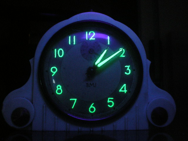 Radium Dial